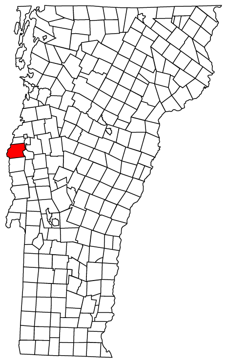 Description: Map of Vermont towns with Addison highlighted Source: Map created by Jared C. Benedict on 26 March 2004. Copyright: © Jared C. Benedict. Category:Addison, Vermont